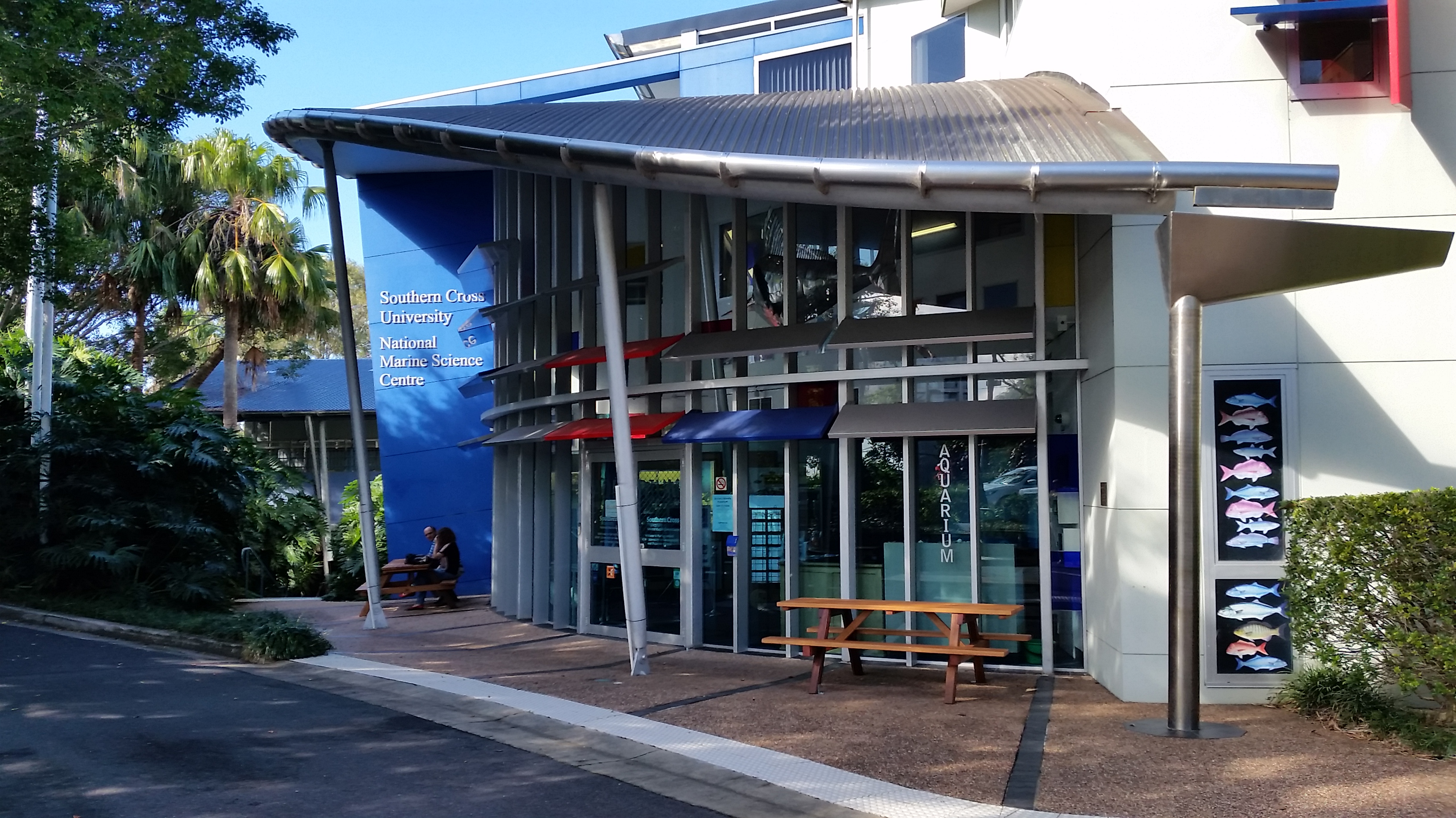 National Marine Science Centre, view from Bay Drive, Coffs Harbour, NSW